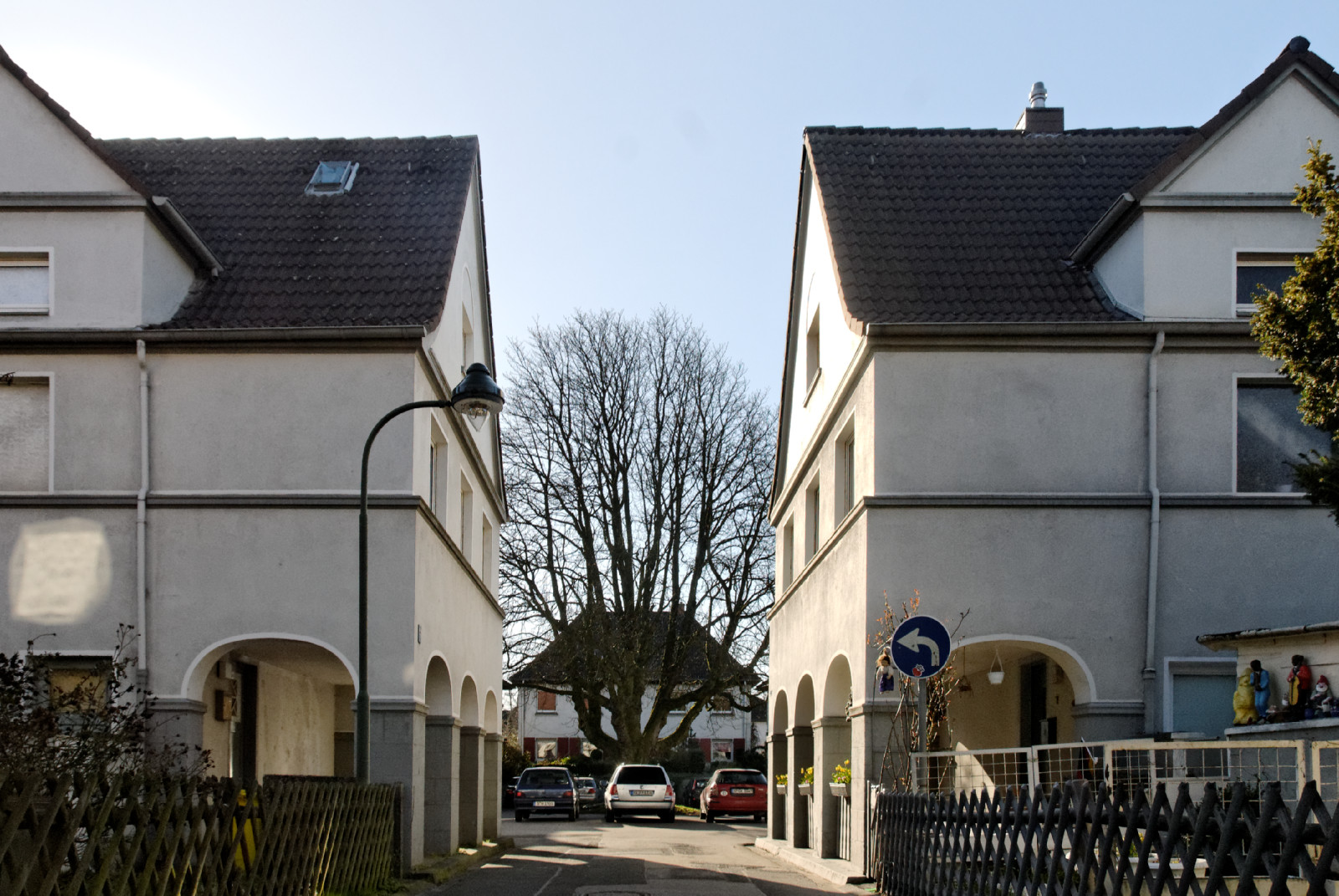 Houses Am Tannenwäldchen 7 and 10 in Düsseldorf-Derendorf, Germany